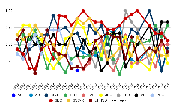 Final team standings in Philippine NCAA men's basketball since the 1999 season.